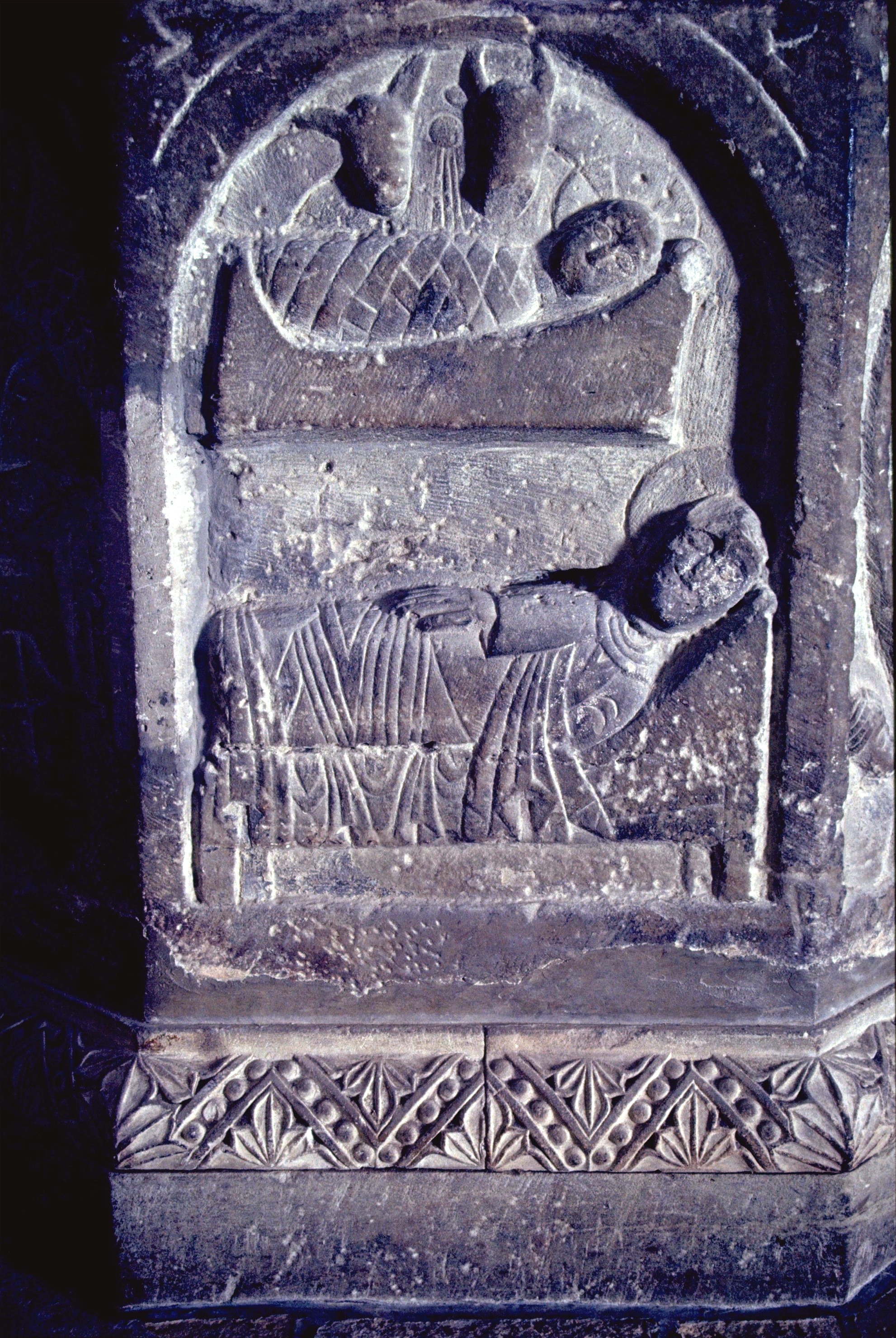 Baptismal font of St. Cyriakus, Gernrode Photo was taken using the following technique: Film: Fuji Velvia Lens: ? Filter: none Body: Minolta Dynax 7 Support: Image with Information in English Bild mit Informationen auf Deutsch